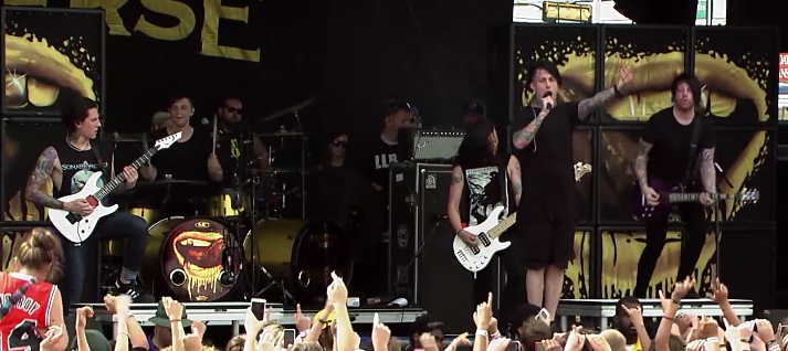 Falling In Reverse live at warped tour in Milwaukee Wisconsin in 2014.